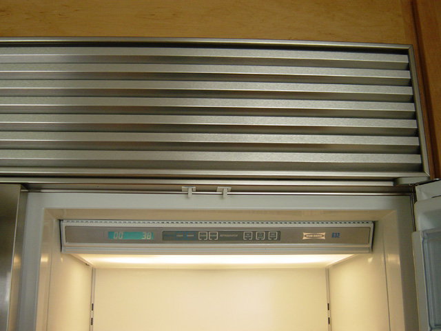 The control console at the top of the Subzero refrigerator's interior. Behind the grill at the top are the two compressors. The two sides of the unit are powered by independent compressor so that the freezer and refrigerator's temperature can be controlled independently. MU